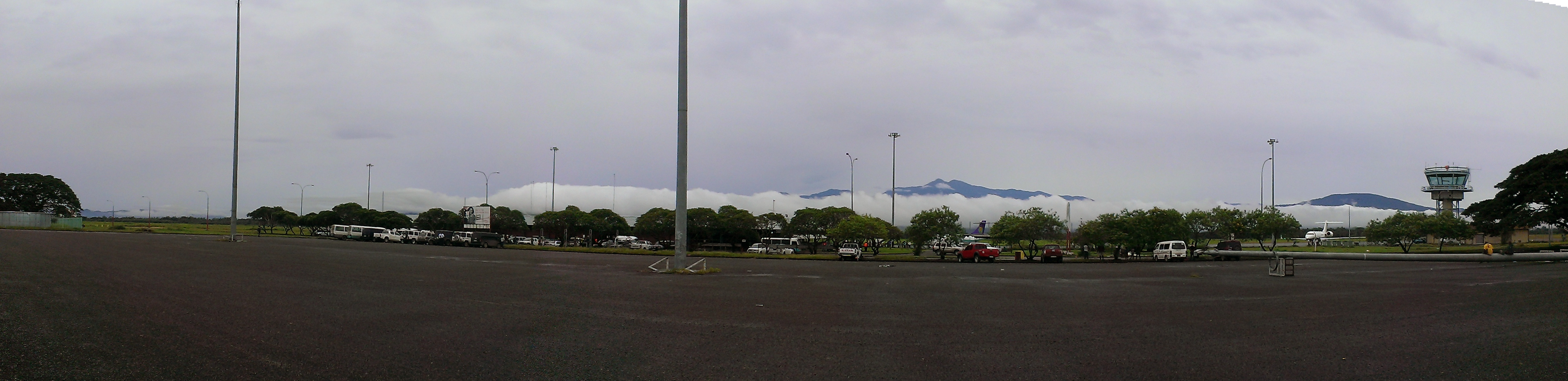 Panoramic photo of Nadzad airport in Lae, Papua New Guinea